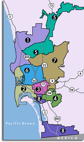 Graphic of the San Diego City Council District map, 2002-2012 Image is in the public domain, as indicated by the disclaimer of the website of the City of San Diego, found here: An excerpt: Unless a copyright is indicated, information on the City of San Diego Web site is in the public domain and may be reproduced, published or otherwise used with the City of San Diego's permission. We request only that the City of San Diego be cited as the source of the information and that any photo credits, graphics or byline be similarly credited to the photographer, author or City of San Diego, as appropriate